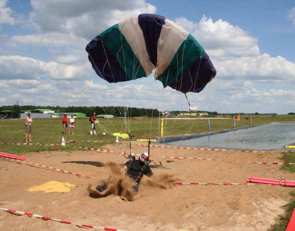 Zone Accucarcy landing during German Swooping Open 2006